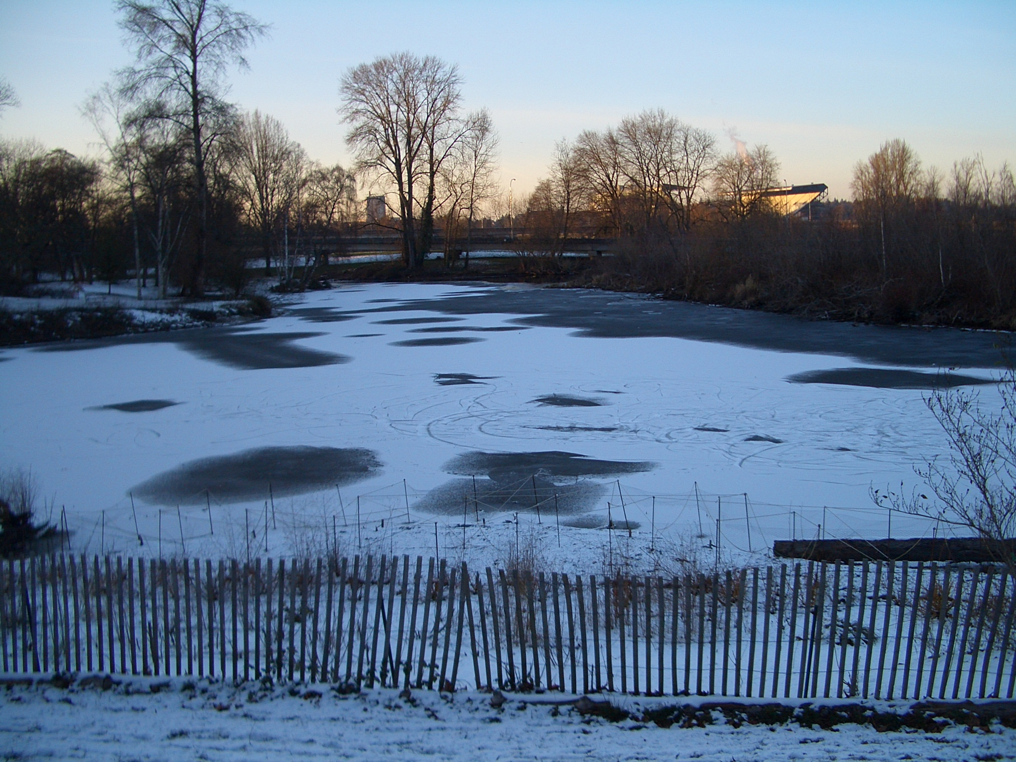 Frozen Duck Bay in the northern section of Washington Park Arboretum.